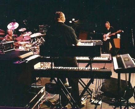 This is a concert shot